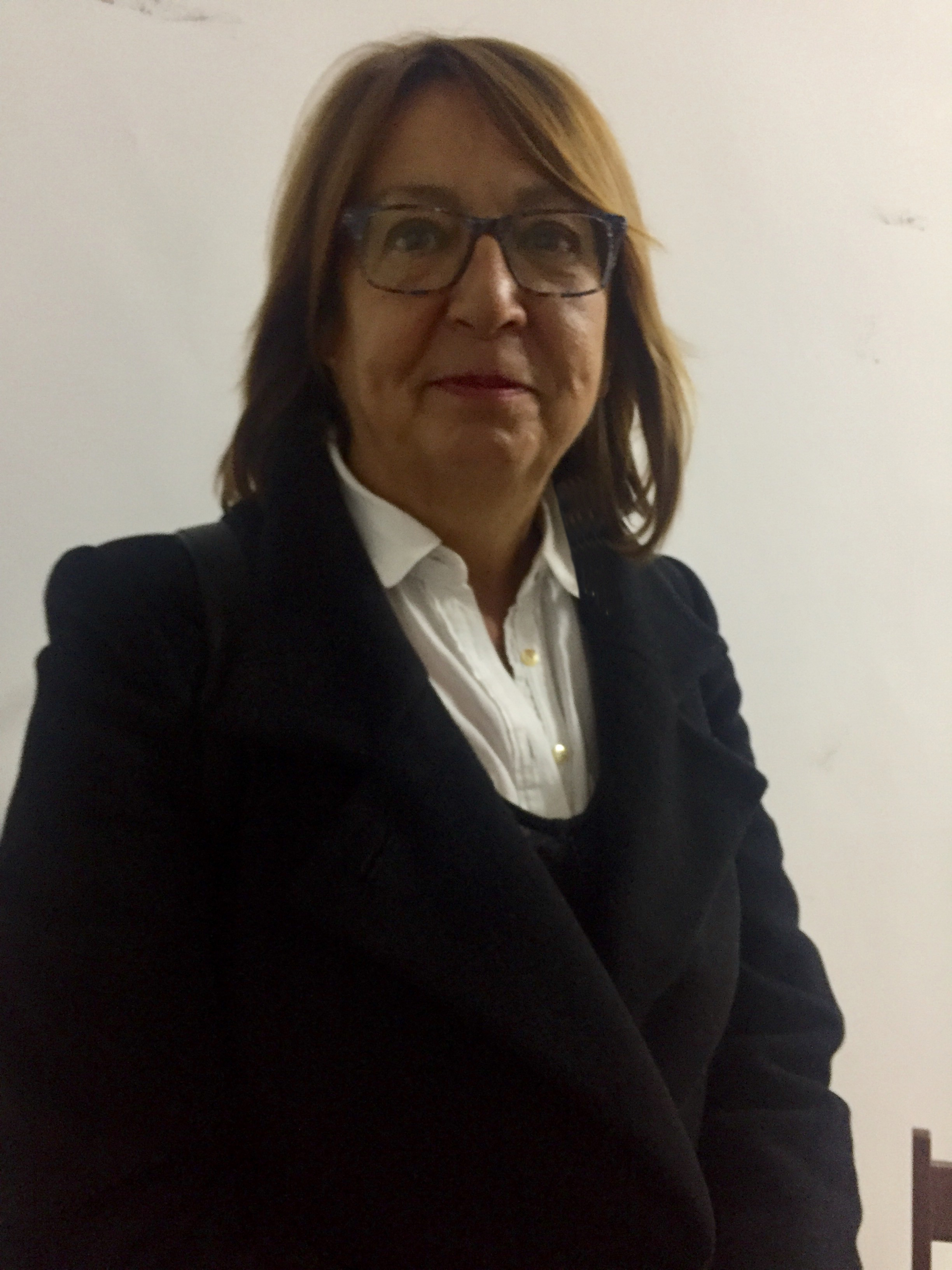 retrato